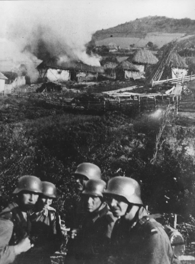 Germans set fire to a Serbian village near Kosovska Mitrovica.